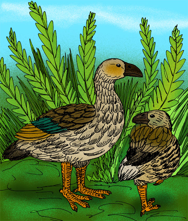 Reconstruction of the Maui Nui Moa-nalo, Thambetochen chauliodous, and Ptaiochen pau from the Late Pleistocene. (C) Stanton F. Fink